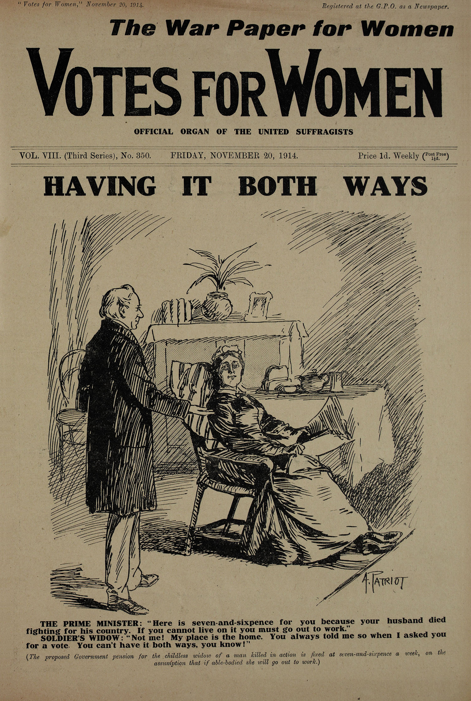 20 Nov 1914 Votes for Women (newspaper)